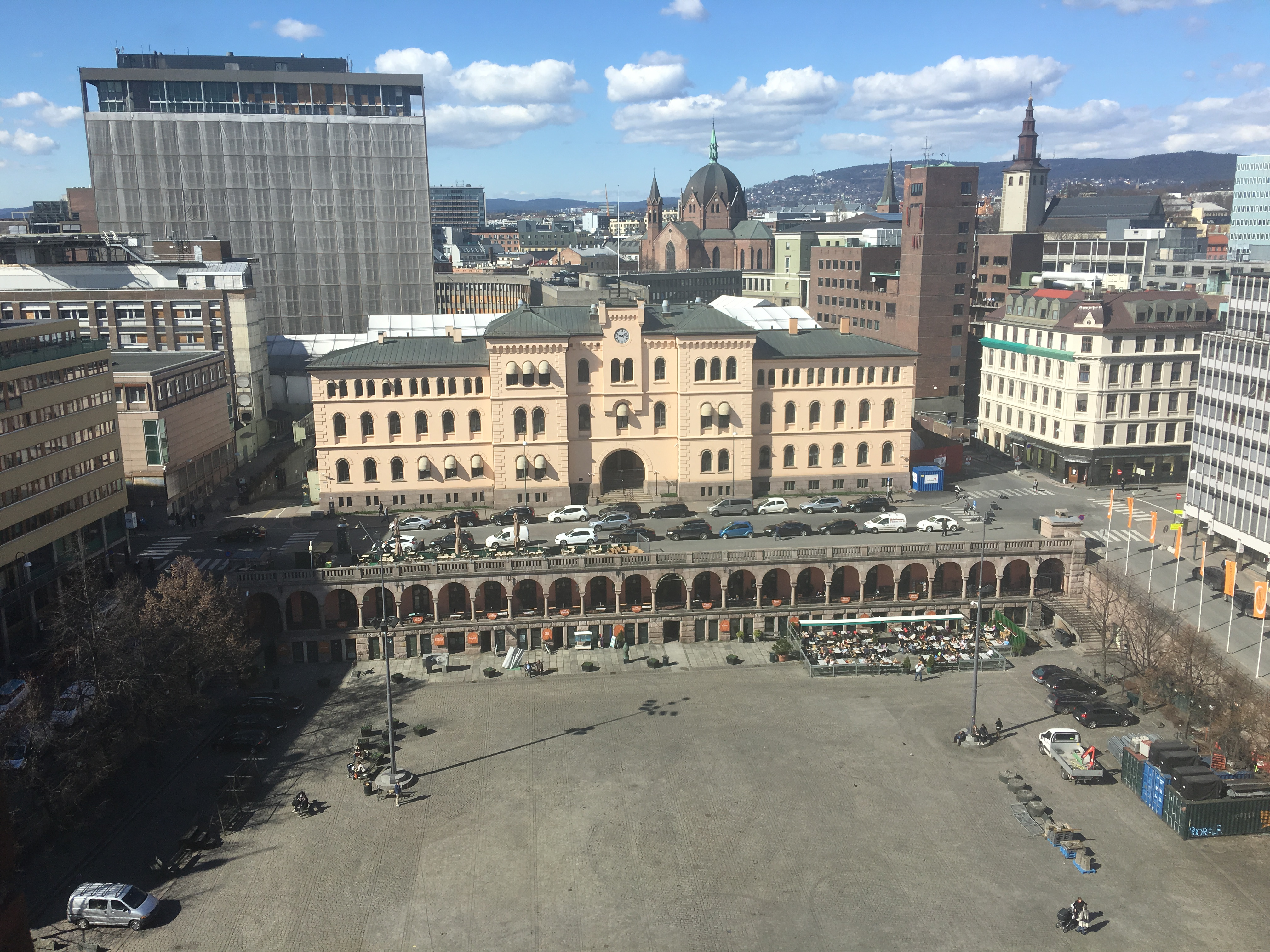 Youngstorget square in Oslo, with Möllergata 19 and the (bombed and abandoned) government headquarters behind.